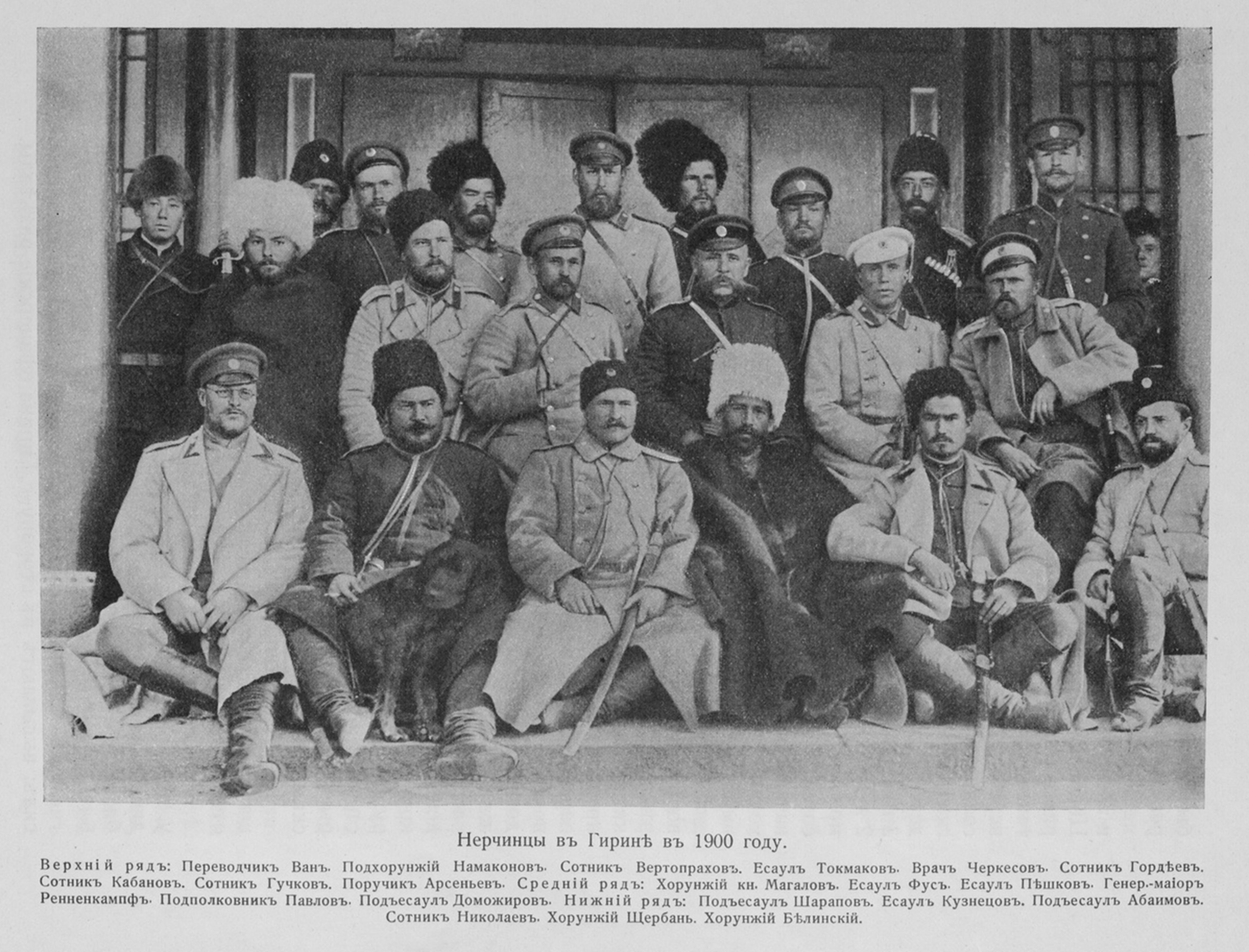 Page from the book "First Nerchinsk Regiment of Zabaikal Cossack Troops"